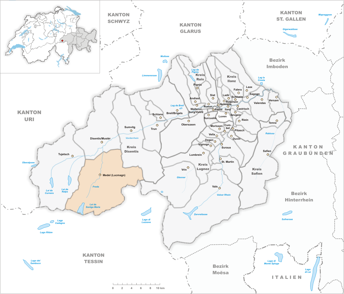 Municipality Medel (Lucmagn)